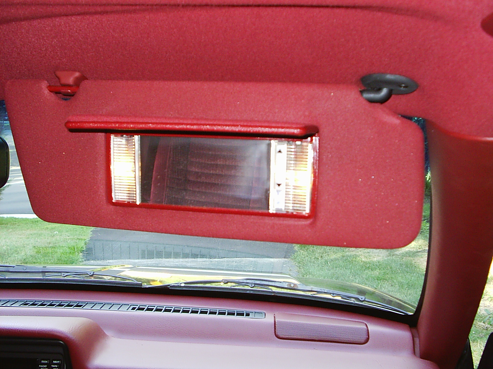 Sun visor on the passenger's side inside a 1993 Jeep Grand Cherokee. The flip up cover of the mirror automatically turns on the lights, which can be adjusted with the white sliding dimmer control. The driver's side is identical. This luxurious sport utility (SUV) is finished in Metallic Blackberry (paint code: PM9), a deep burgundy. Equipment includes the Laredo 26F package and the Quadra-Trac full-time all-wheel drive. This is an early production ZJ model that was built in April 1992. The interior is in matching Crimson with cloth upholstery, that was only available at the start of the ZJ's production.